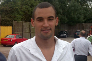 Picture of Nick Wright.